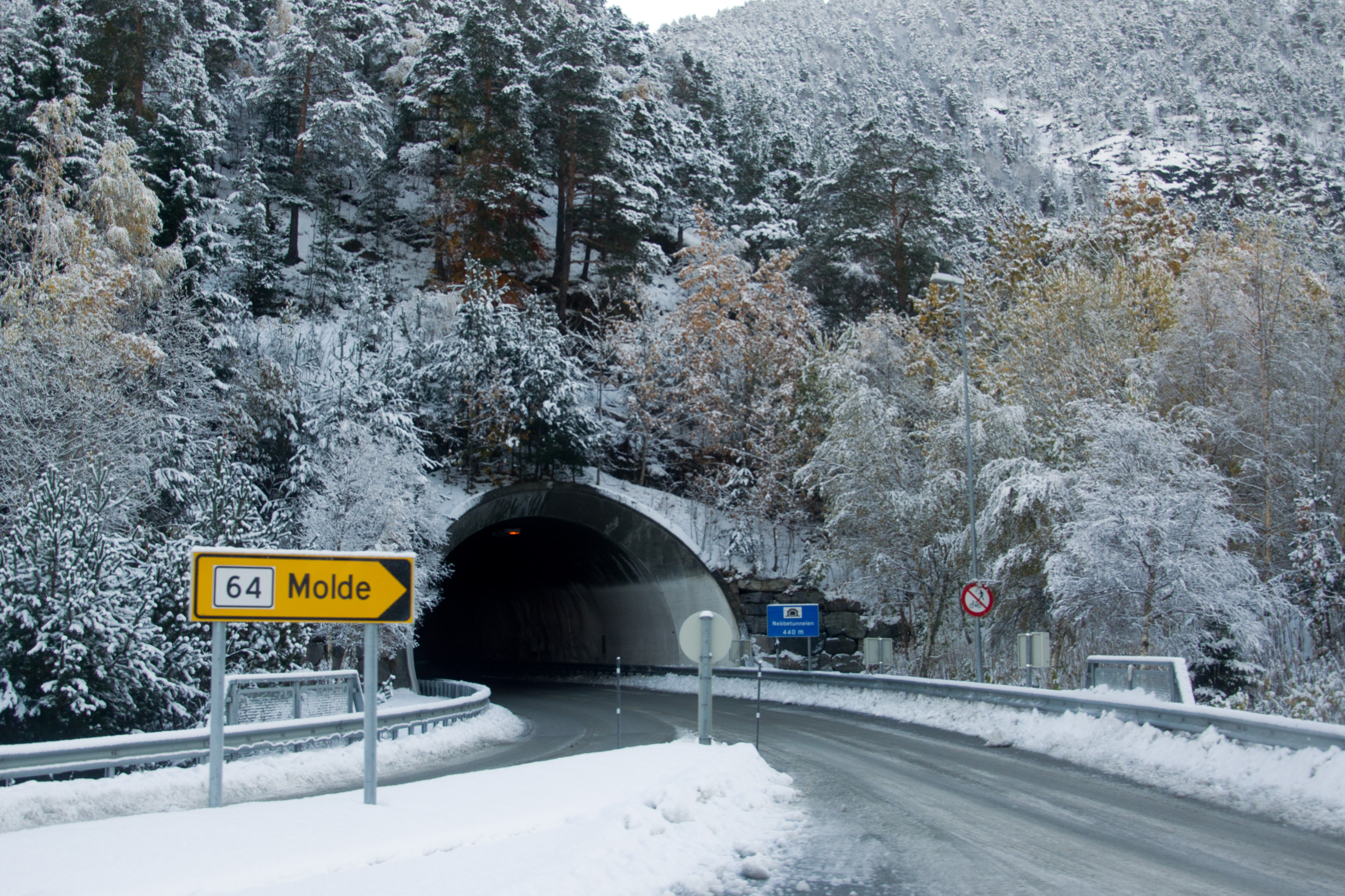 The Nebbe tunnel on county road 64 at Åndalsnes in Rauma, Møre og Romsdal county, Norway.